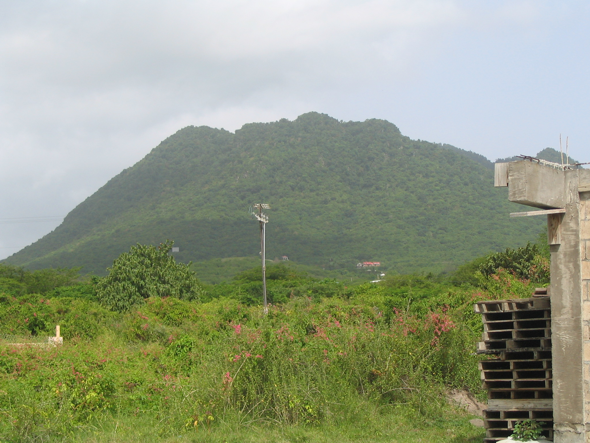 A view of the mountain known as the "Quill" at the southern end of the island of Sint Eustatius, Leeward Islands, West Indies.